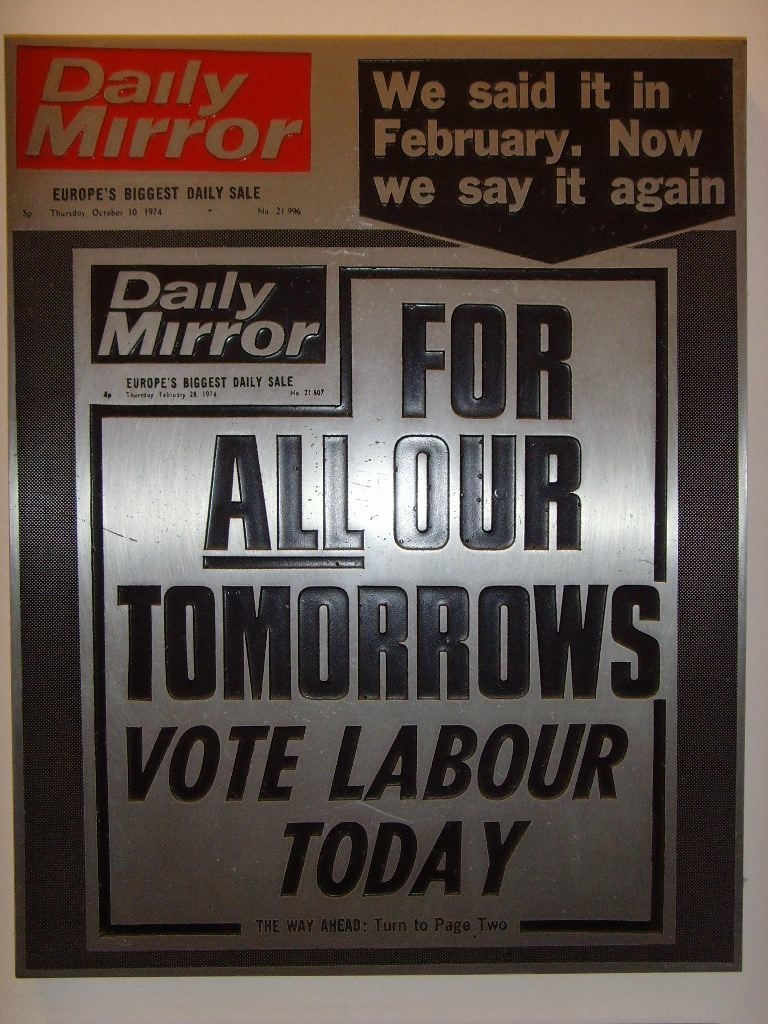 Metal printing plate for Daily Mirror (UK newspaper) election edition dated October 10 1974